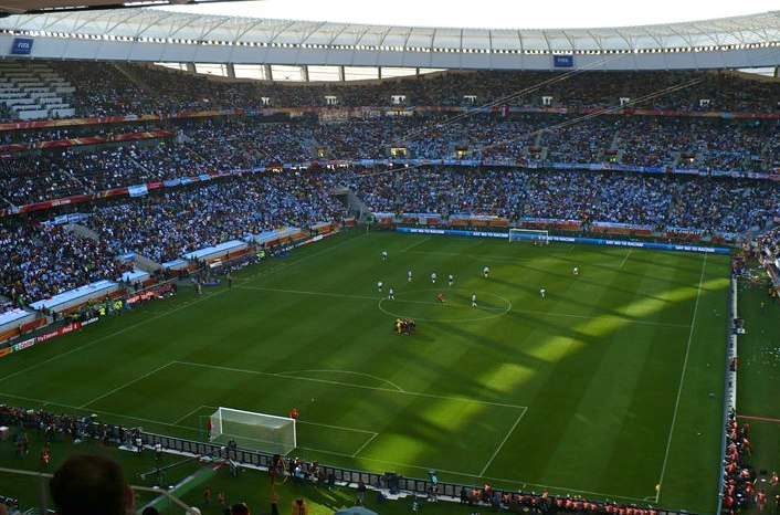 Teams during the quaterfinal between Argentina and Germany at FIFA World Cup 2010, 3 July 2010, Green Point Stadium, Cape Town